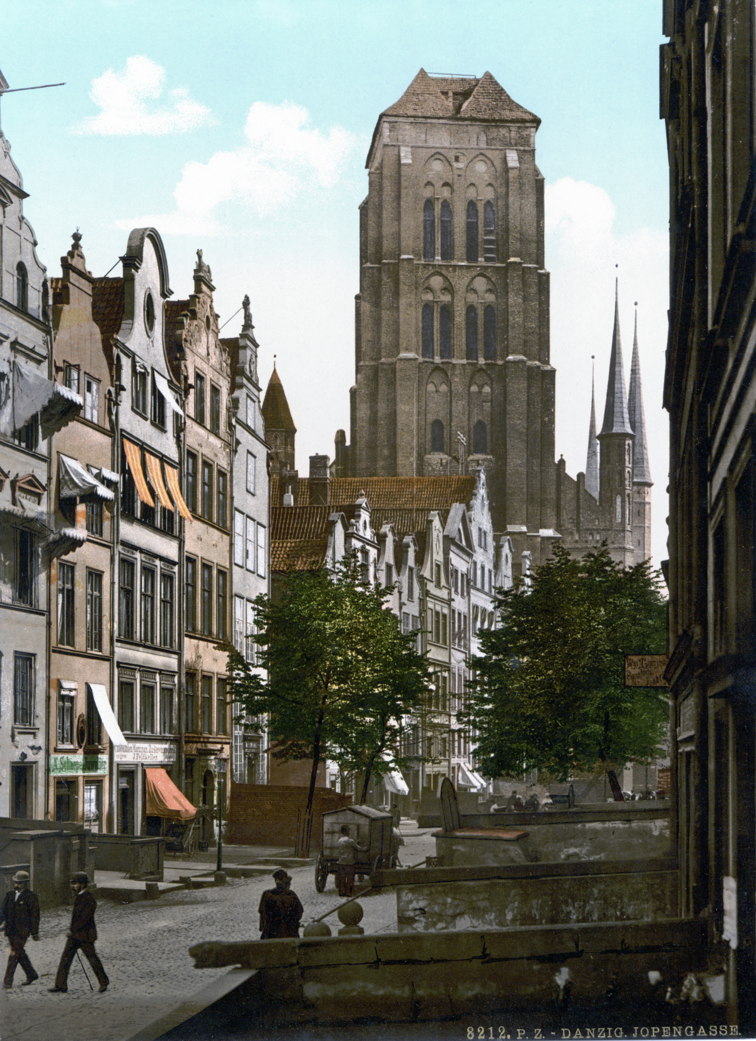 Jopengasse, Danzig, West Prussia, Germany (now Gdańsk, Poland) Print no. "8212"